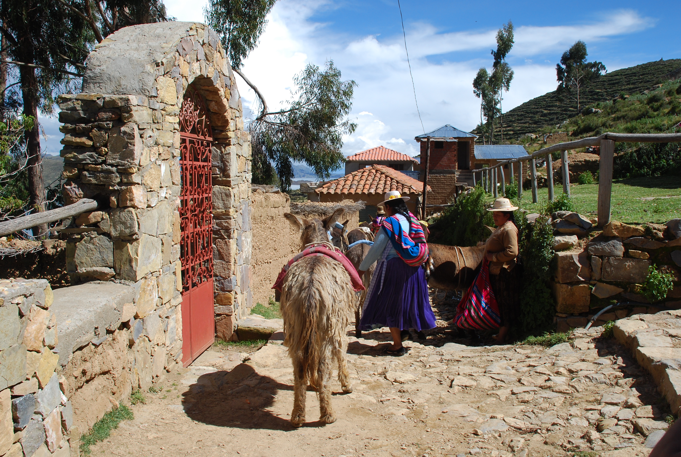 Women, Sun Island, Bolivia